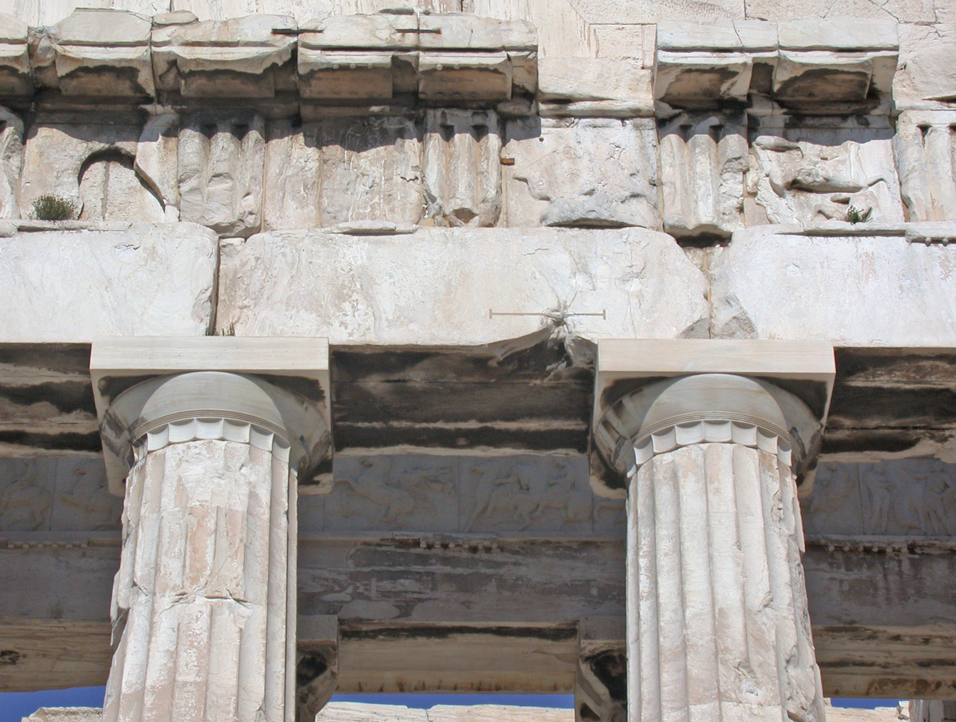 Greece, Athens, Parthenon, entablature on western front